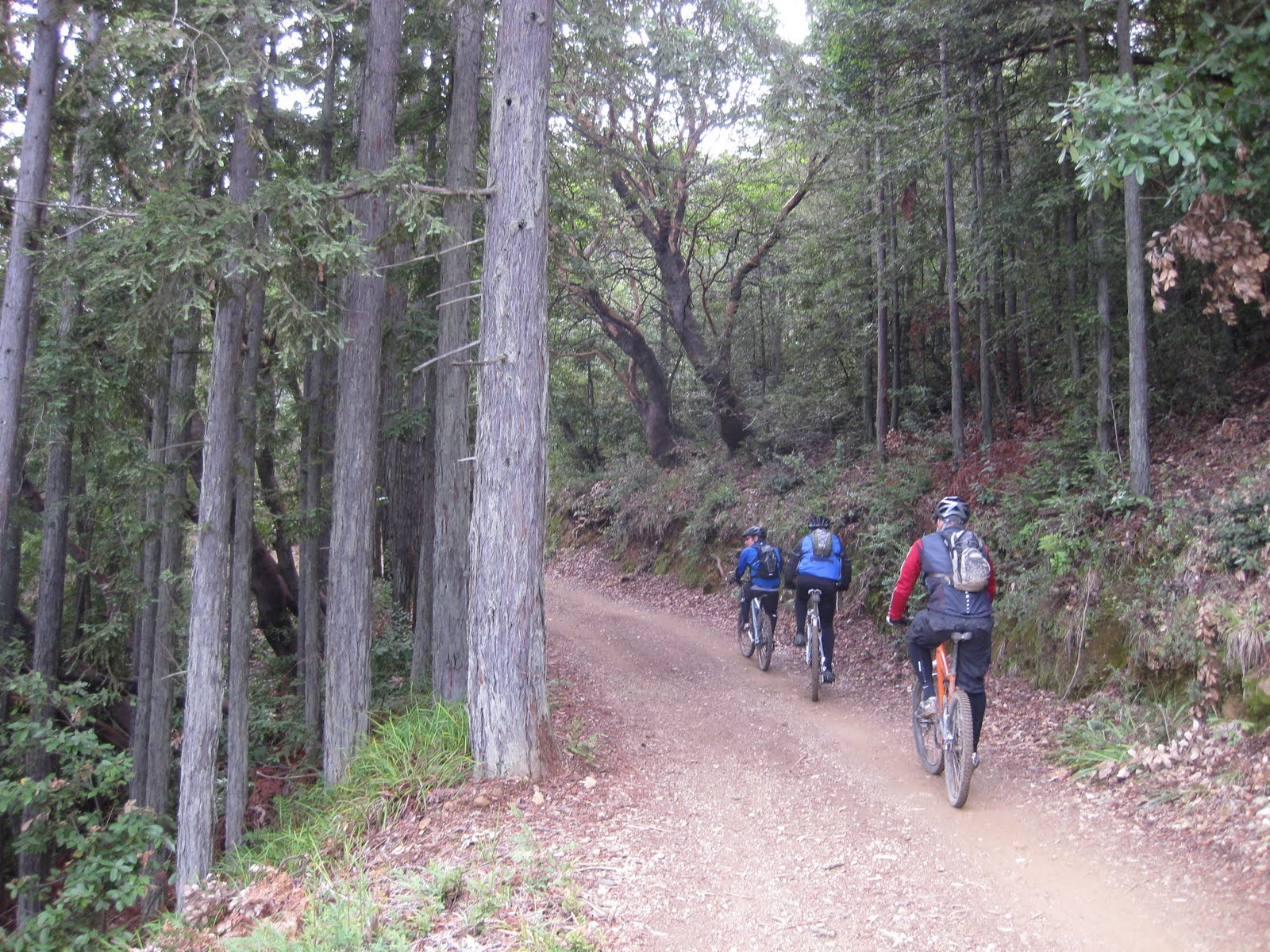 Biking through the redwoods on a fire road on Mount Tamalpais.